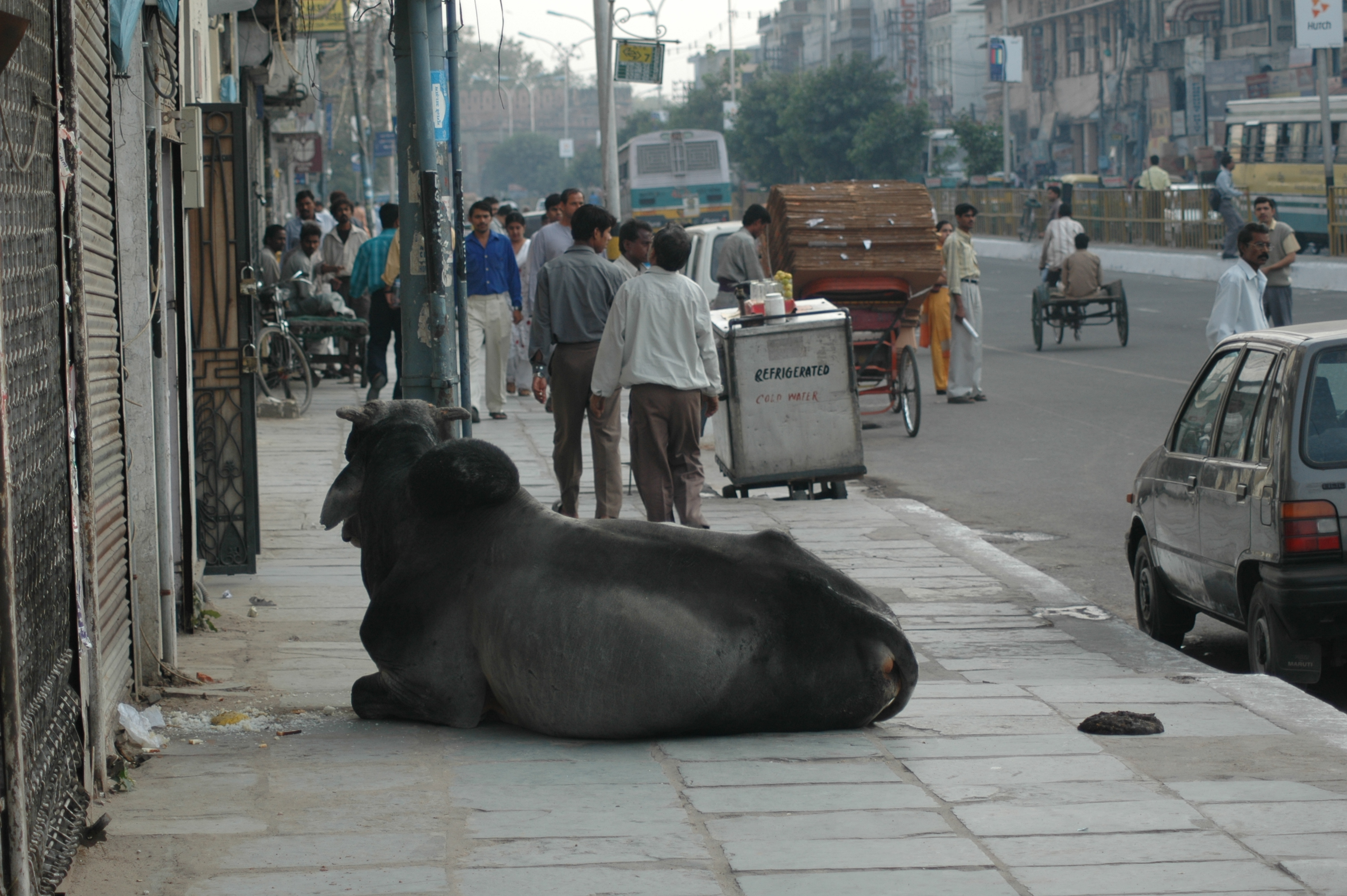 A cow, sacred animal in India